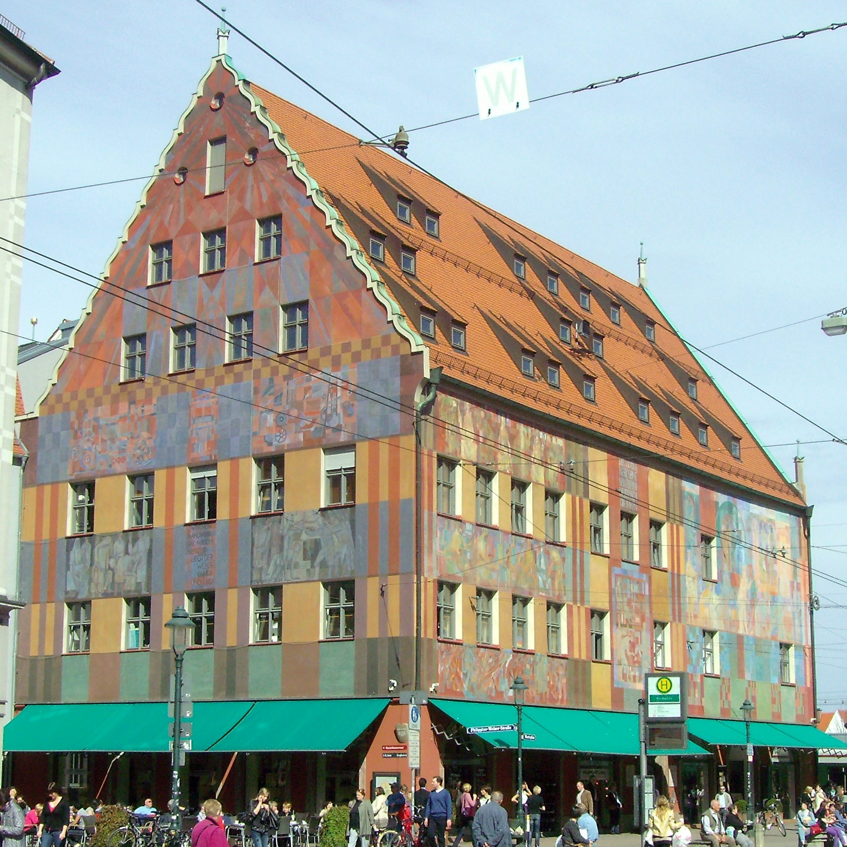 Weaver guild house Augsburg from southwest